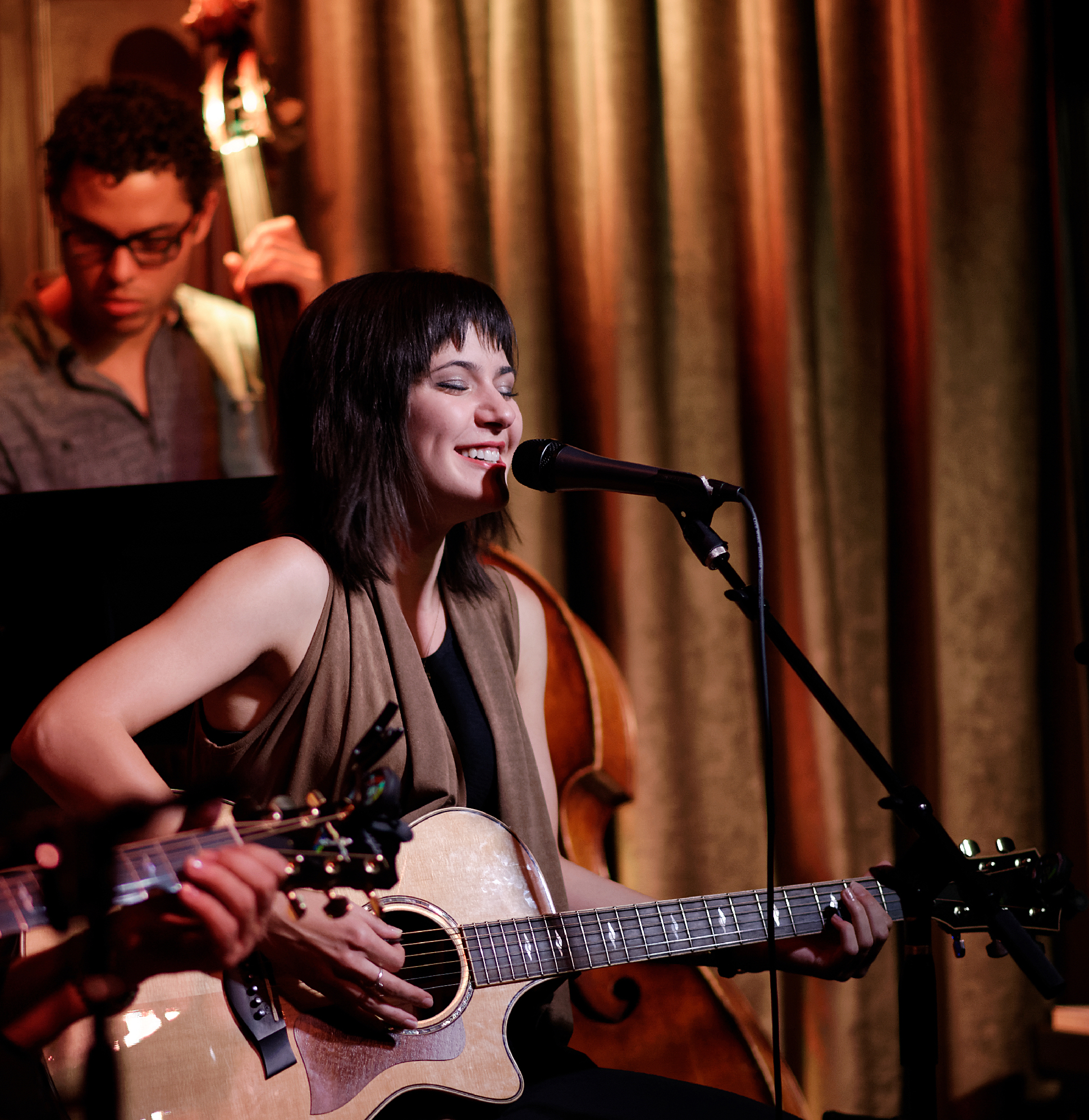 Sara Niemietz at the Hotel Cafe